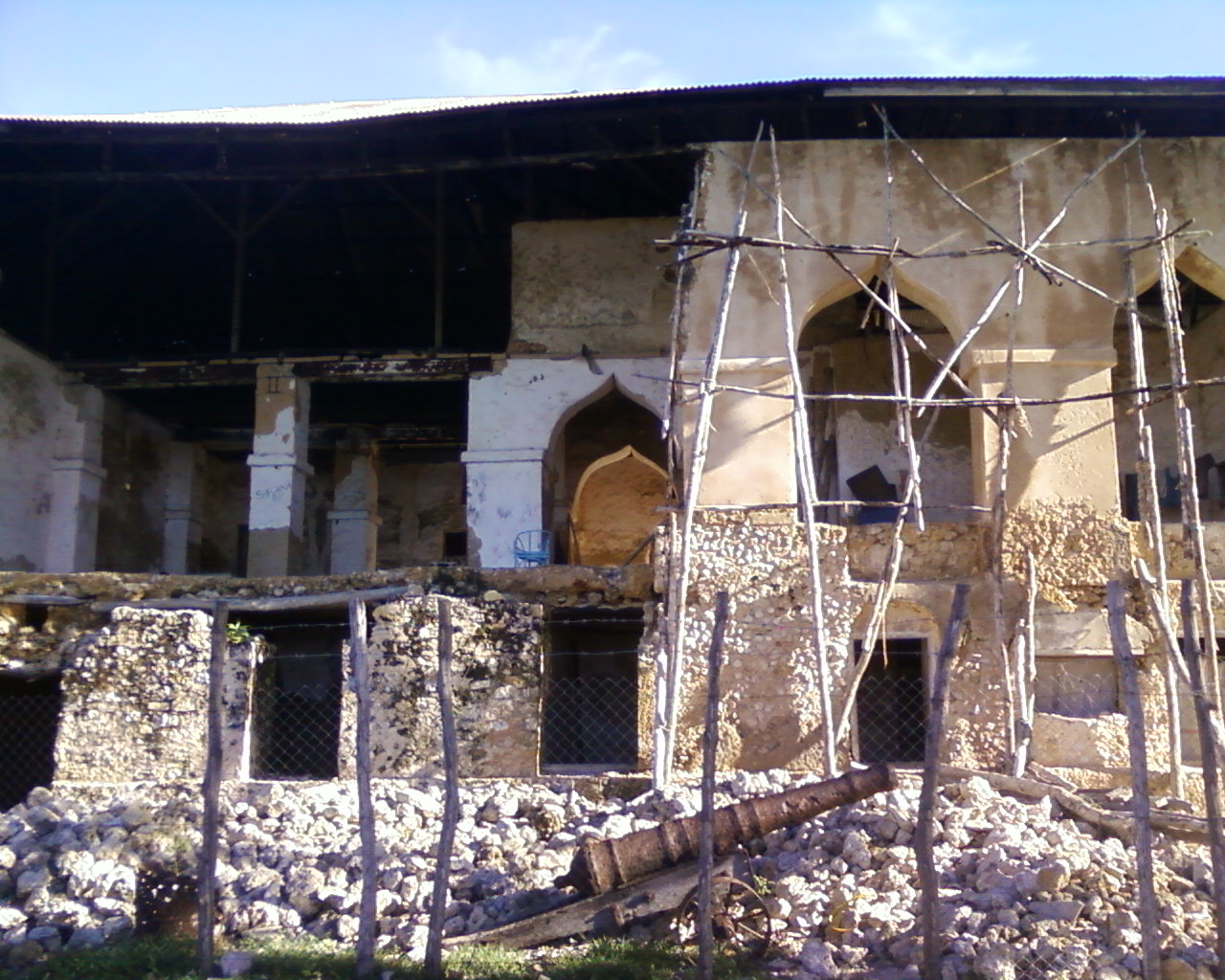 Derelict German Boma in Kilwa Kivinje with 19th century canon